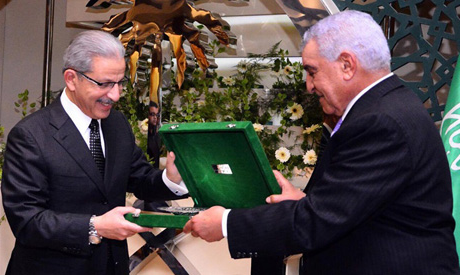 hawass-aw